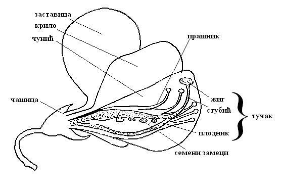 Description: detailed flower of Fabaceae family, text in Serbian; detalji cveta Fabaceae Source: self-made